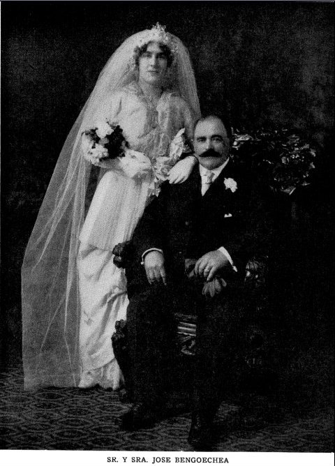 Wedding picture of Jose Bengoechea and Margarita Nachiando (c.1912)